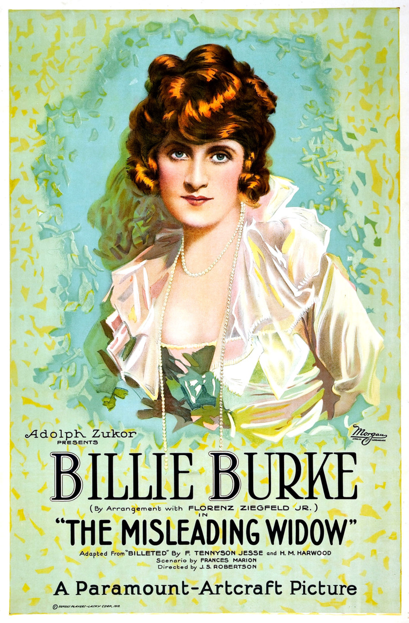 Poster for the 1919 American film The Misleading Widow.